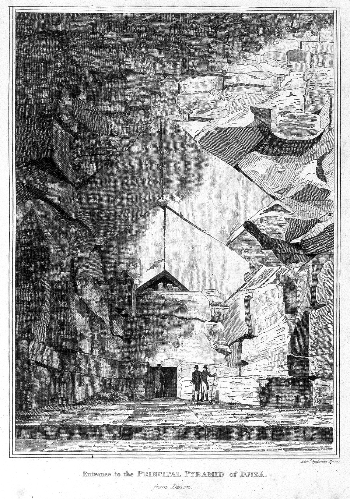 "Entrance to the Principal Pyramid of Djiza..." Rare Books